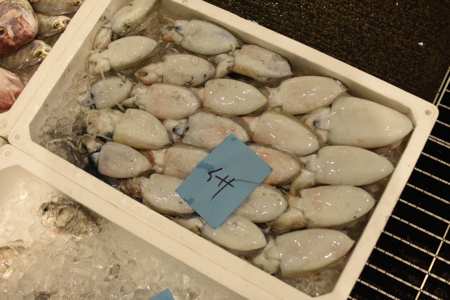 Golden cuttlefishes Sepia esculenta landed at Yawatahama port.